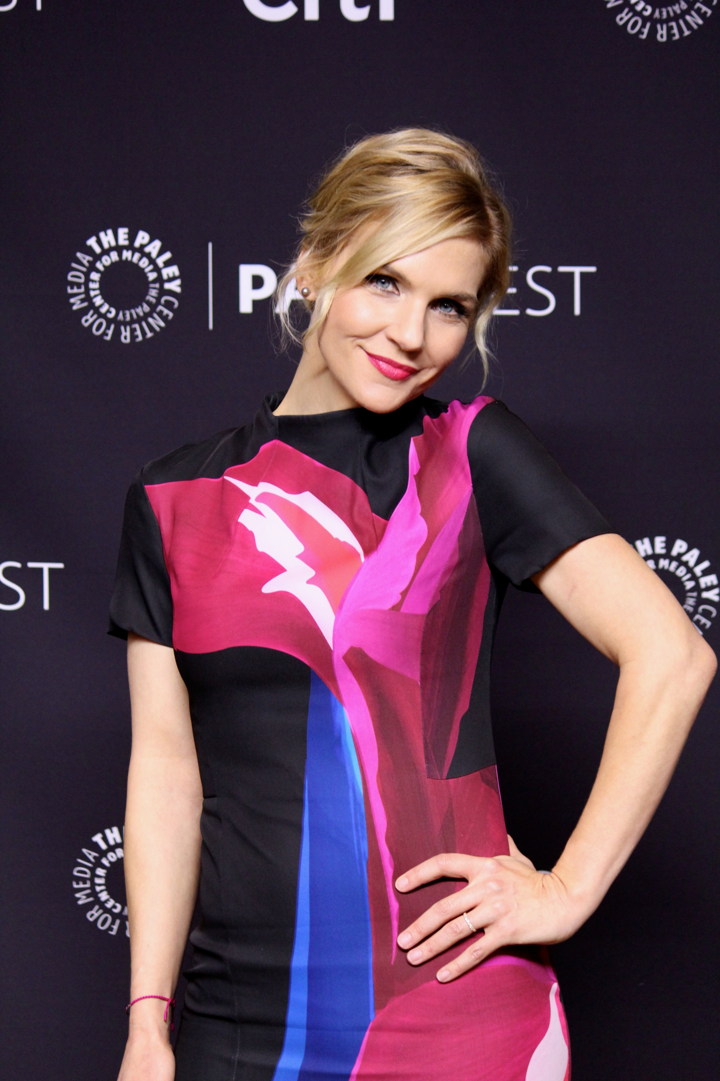 Rhea Seehorn at PaleyFest Los Angeles on March 12, 2016 at the Dolby Theatre.